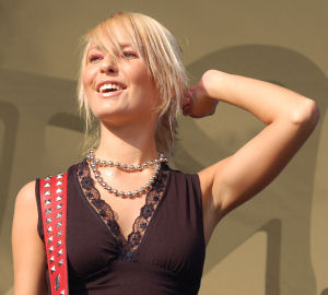 Live photo of Piret Jarvis at the real festival at Koblenz (august 2005)